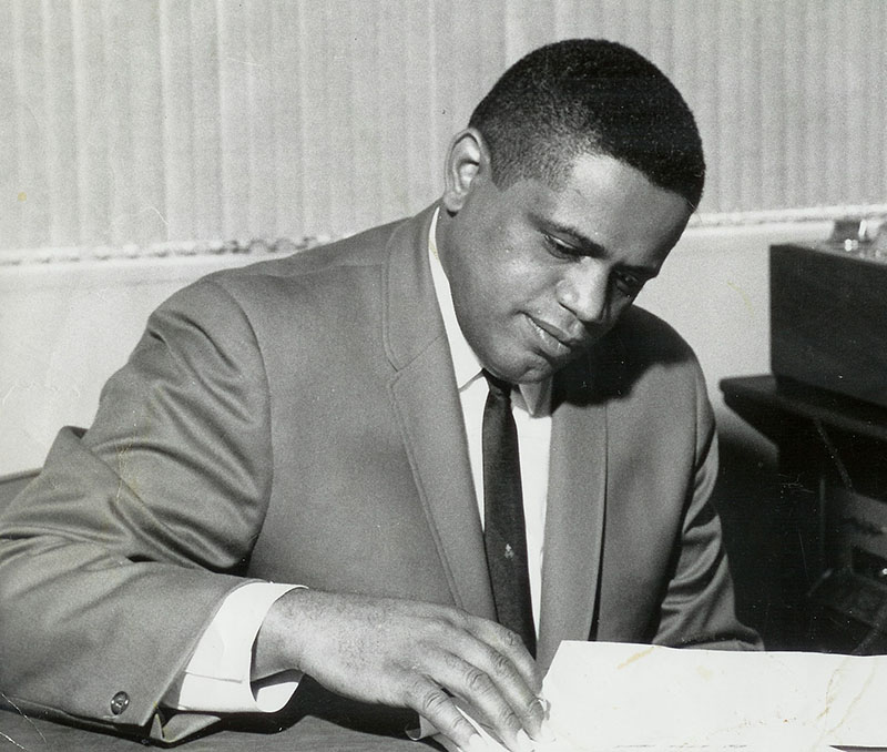 Edward W. Ray at work at Capital Records. Eddie Ray was an African American music executive and North Carolina Music Hall Of Fame inductee.